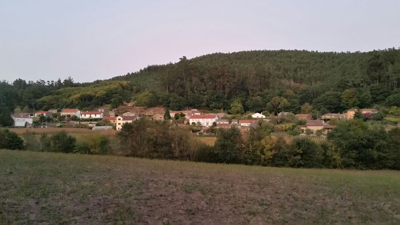 Patrimonio de Rois